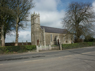 author: Lars Behme source: photographed on March 26, 2005 (Holy Saturday)